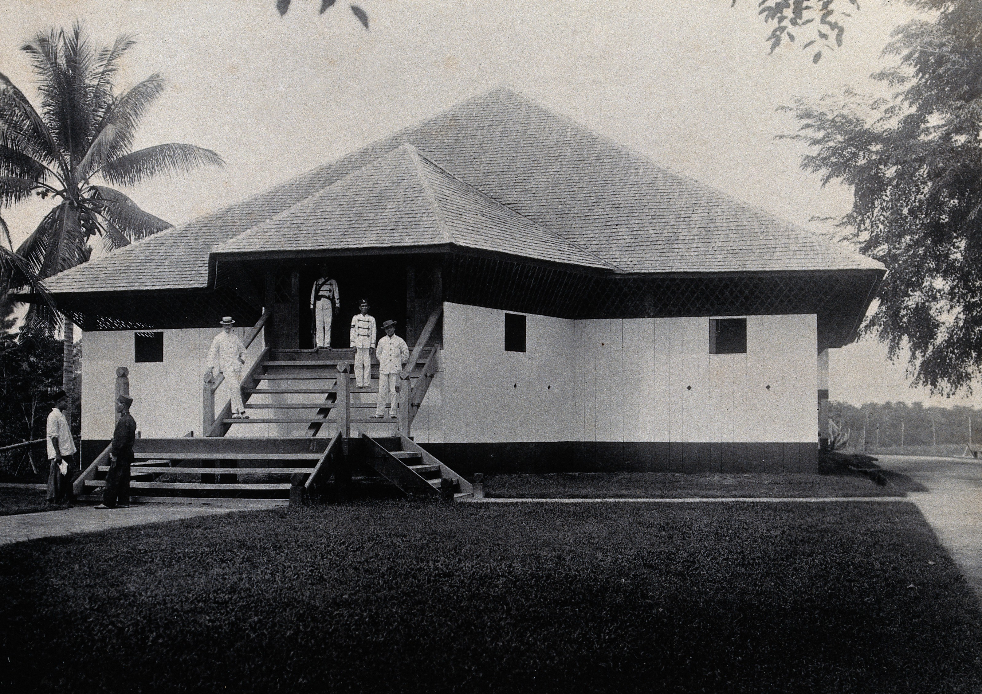 Sarawak: exterior view of the Baram Fort. Photograph. Iconographic Collections Keywords: Borneo; FORTIFICATION; Charles Hose; saraks; Anthropology; Malaysia; Ethnography; platinum photoprints